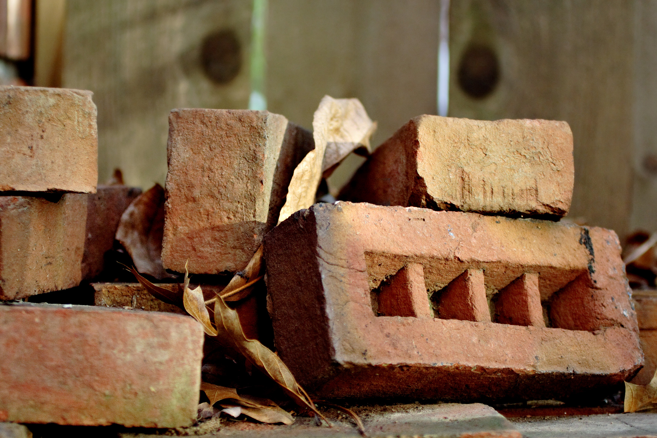 Pile of bricks.